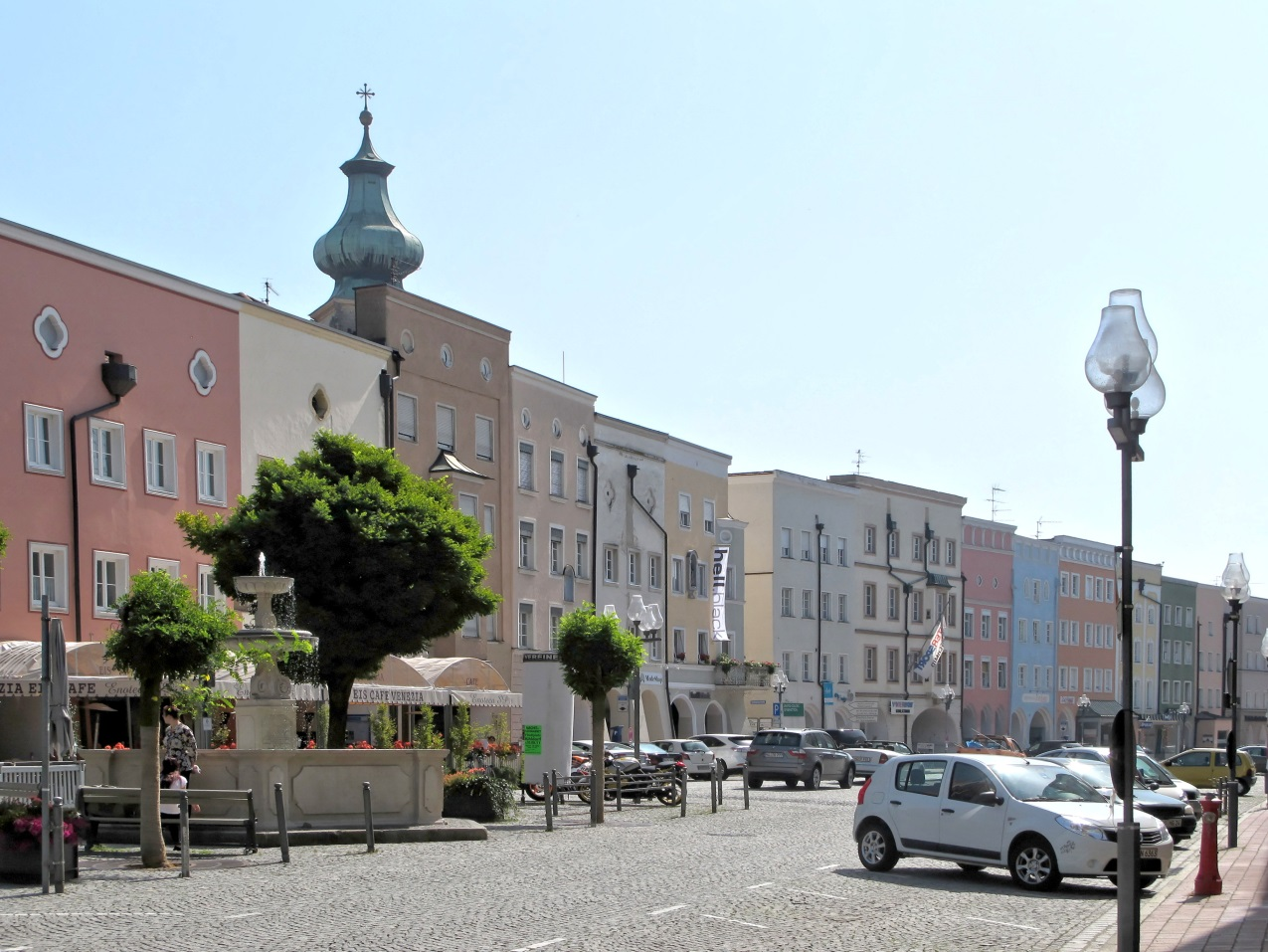 City "Mühldorf am Inn": Historic City, City-Place: Part in NE